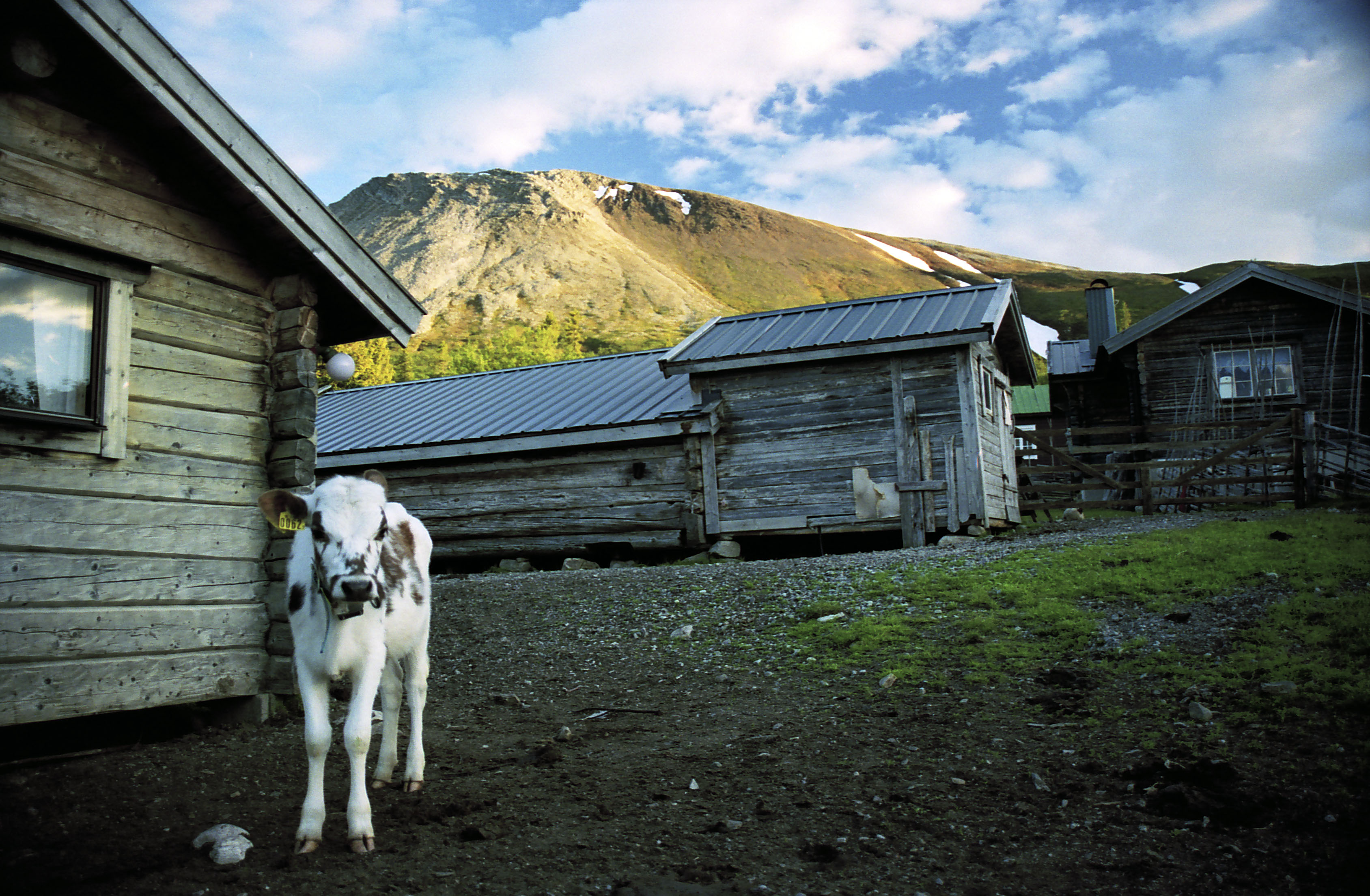 Sånfjällets National park in Härjedalen, Sweden.